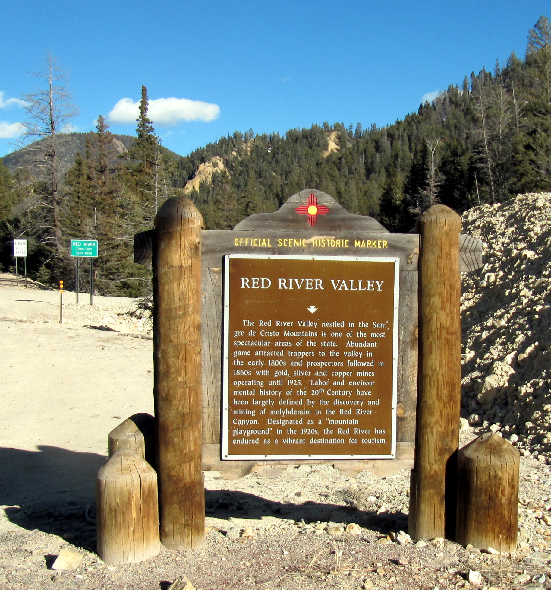 The Red River Valley historic marker west of Red River, New Mexico.